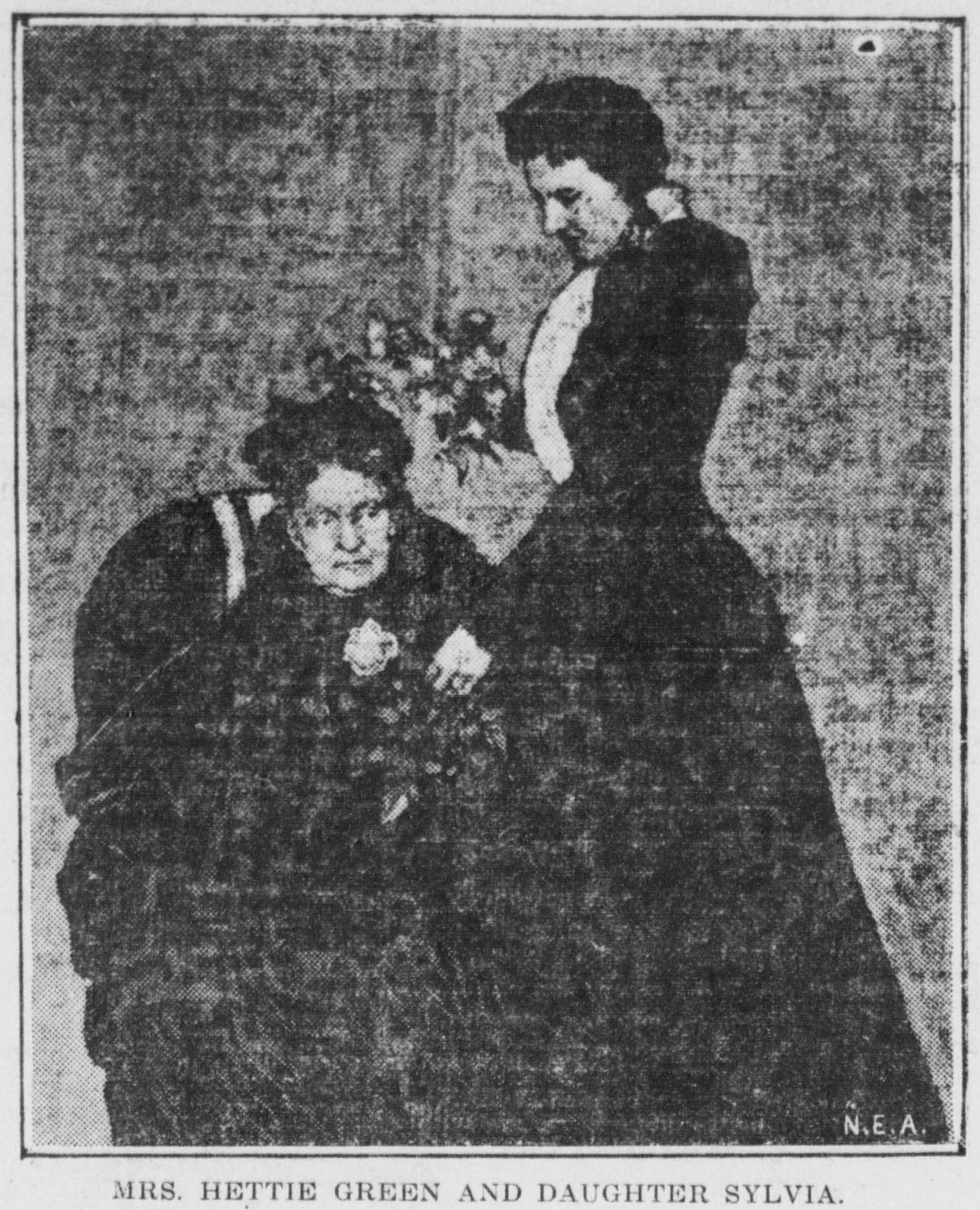 Hettie Green and her daughter Sylvia.